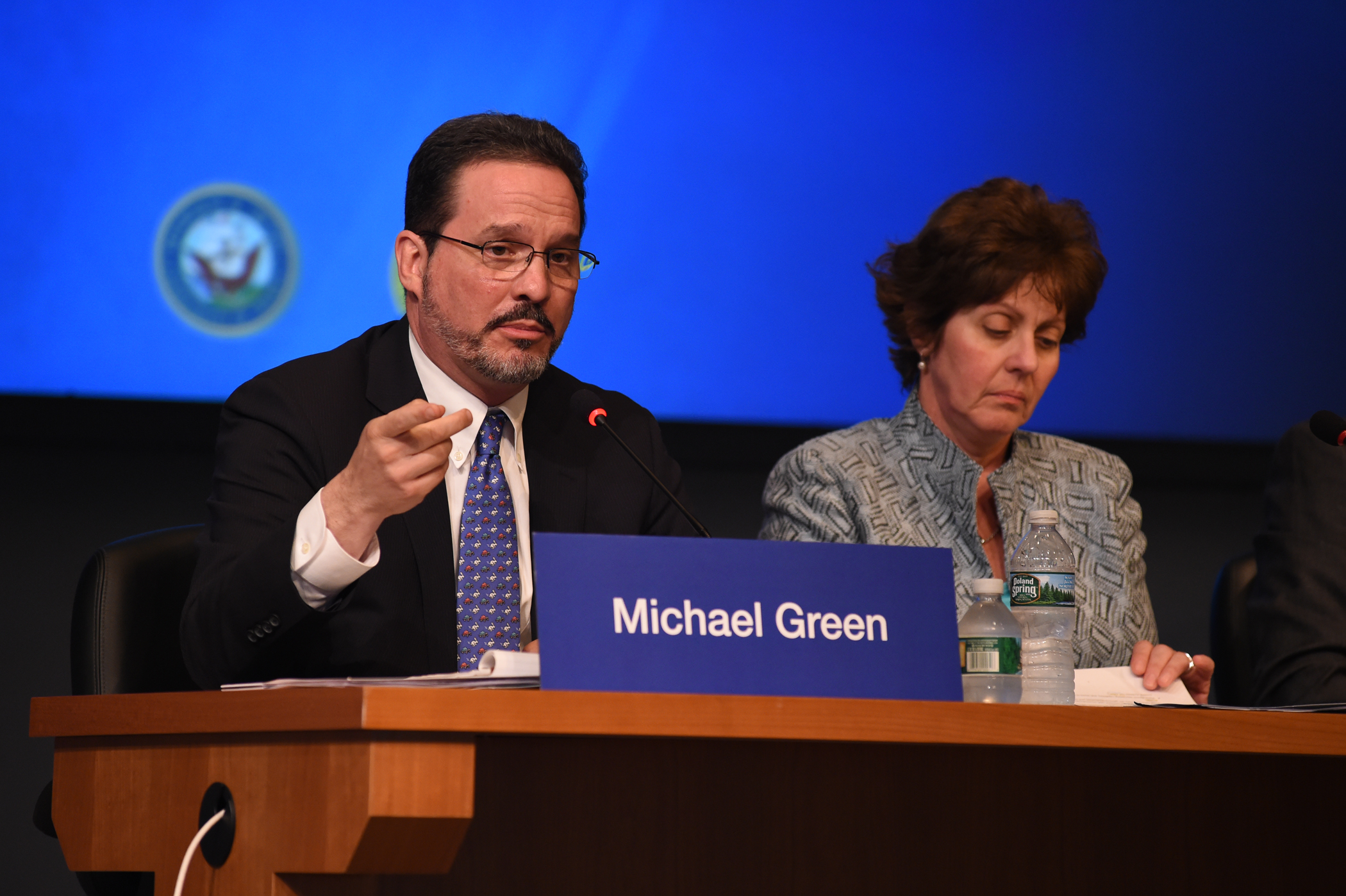 160615-AF146-077 NEWPORT, R.I. (June 15, 2016) Michael J. Green, professor at Georgetown University, participates in a panel discussion during the 67th annual Current Strategy Forum at U.S. Naval War College (NWC) in Newport, Rhode Island. As NWC's capstone academic event, the two-day forum brings together distinguished guests and students to explore issues of strategic national importance. This year's theme is "Strategy in Complex and Uncertain Times." (U.S. Navy photo by Mass Communication Specialist 1st Class Christian S. Eskelund/Released)